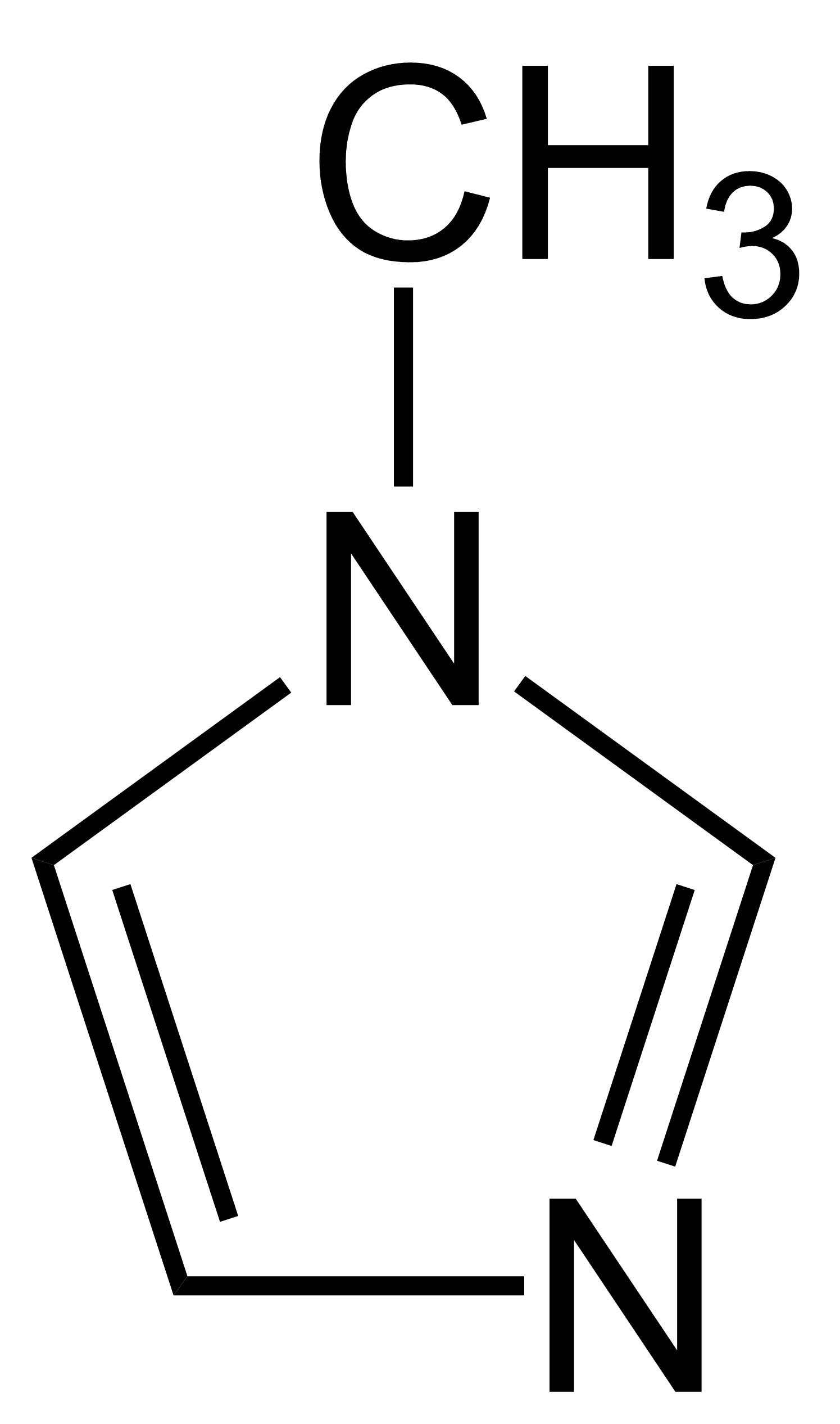 1-methylimidazole chemical structure